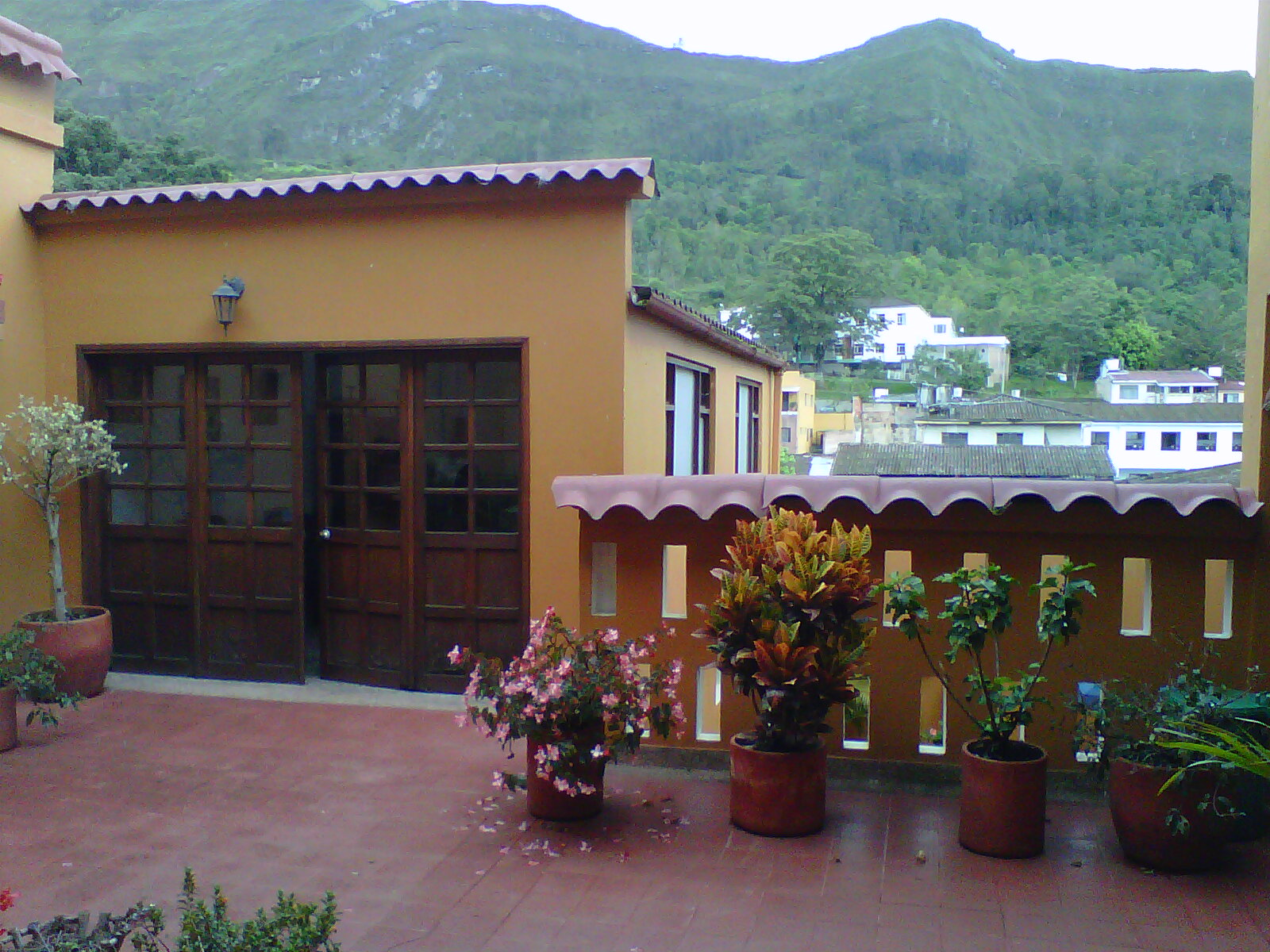 Vista Interior Hospedaje 2 Esta fotografía fue tomada en el municipio colombiano con código 25151.